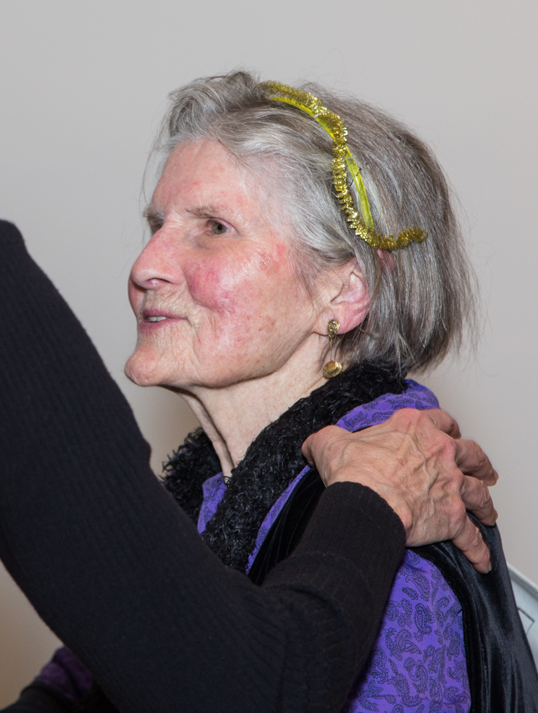 Artist Ruth Laxson at MOCA GA, Friday, January 25, 2013